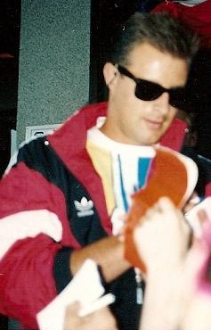 Clayton Blackmore, former Man. United player, in 1992.